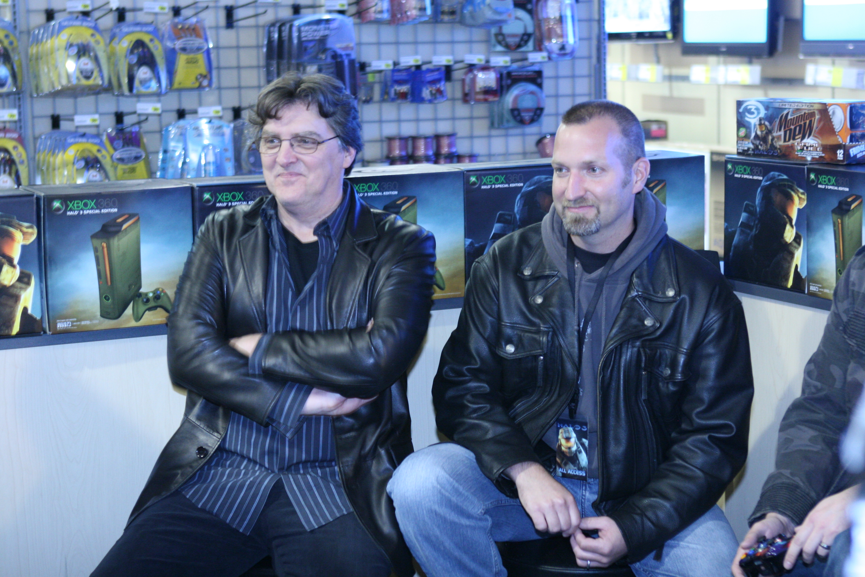 Martin O'Donnell at a midnight release of Halo 3.